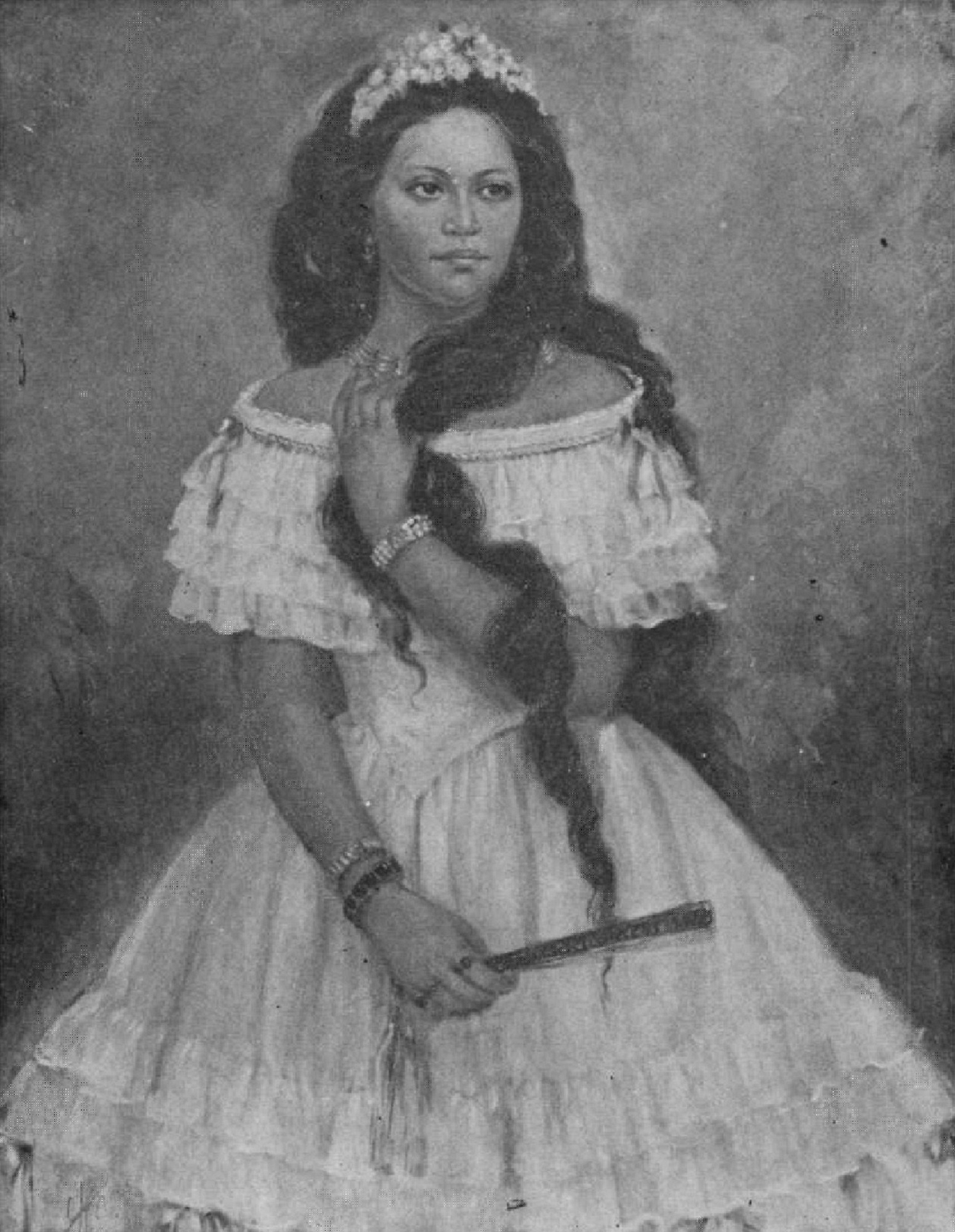 Nancy Wahinekapu Sumner (1839-1895), about age 19-20.